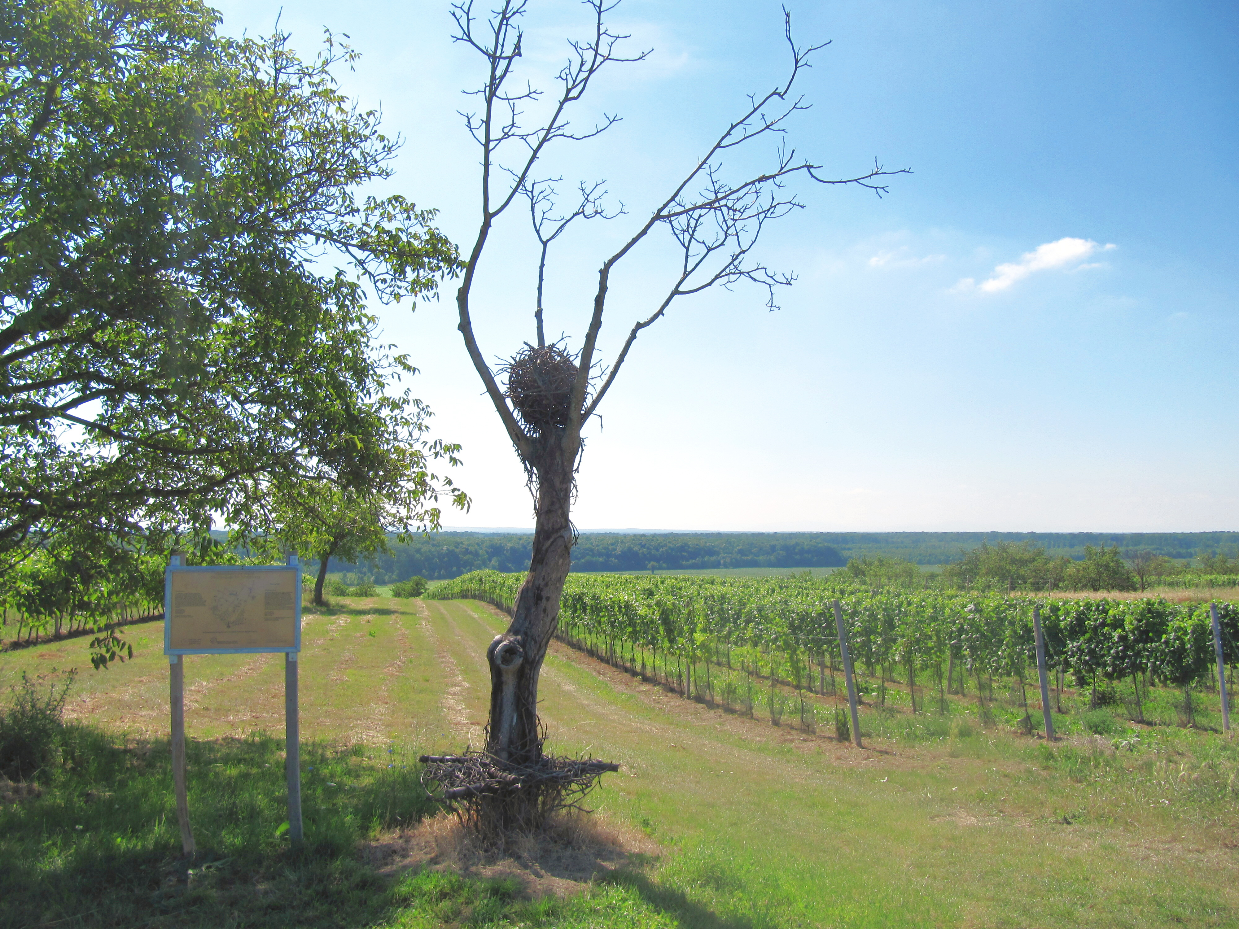 Týnec in Břeclav District, Czech Republic. Sculptures in the vineyard between Týnec and Tvrdonice. This photograph was taken within the scope of the third year of the 'Czech Municipalities Photographs' grant.